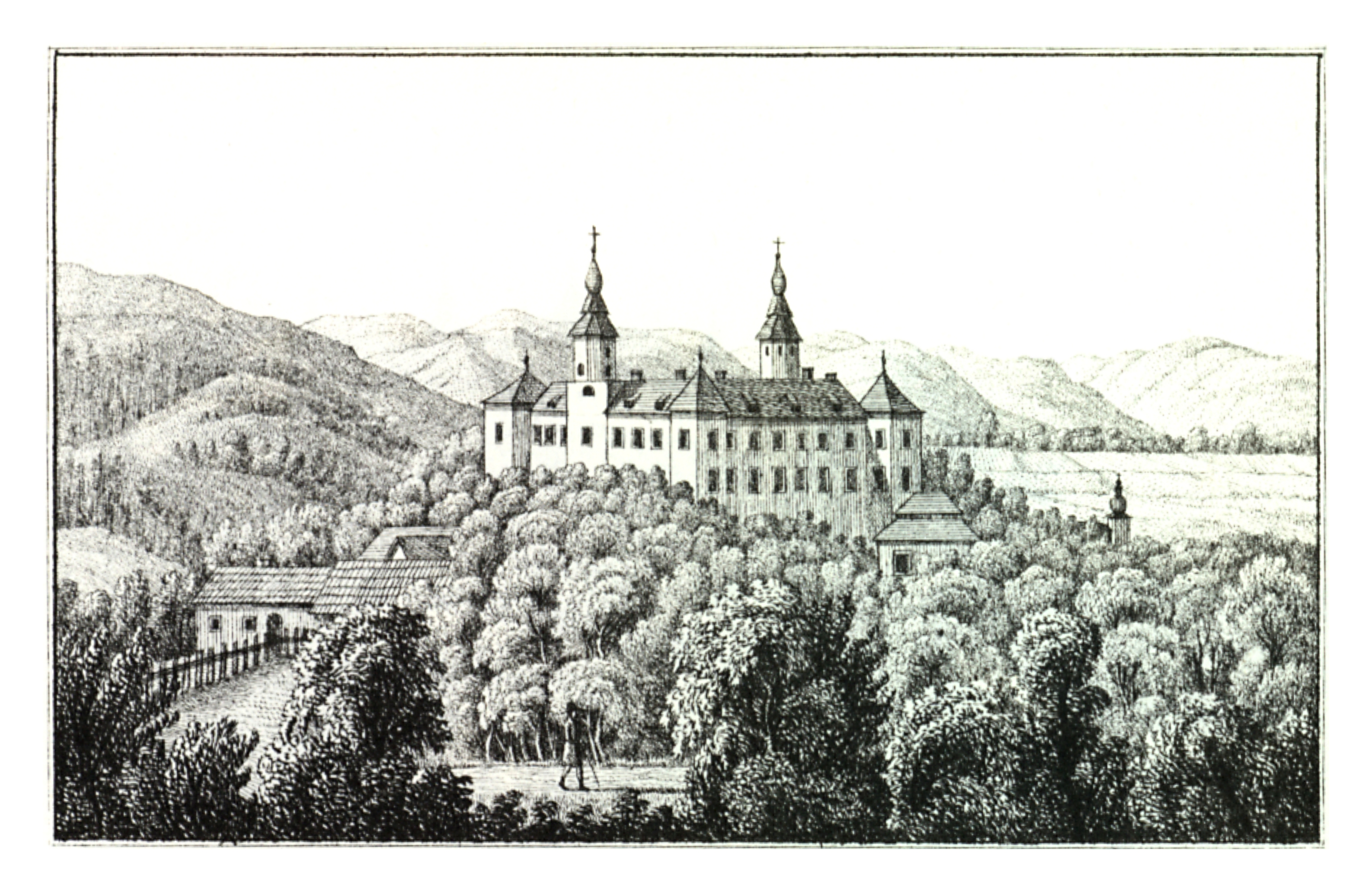 J. F. Kaiser - lithographirte Ansichten der Steyermärkischen Städte, Märkte und Schlösser Graz, 1825 Scanprojekt Community Projektbudget 2012 This scan or this PDF-file was created within the GLAM-project Bookscanning, supported by Wikimedia Germany and Wikimedia Austria as a part of the community-project to capture books, documents and pictures which are not eligible to copyright or for which the copyright has expired. This document describes or depicts an object which is located in Austria today. Send requests for uncompressed scans to Hubertl. This work is in the public domain in its country of origin and other countries and areas where the copyright term is the author's life plus 100 years or less. You must also include a United States public domain tag to indicate why this work is in the public domain in the United States. This file has been identified as being free of known restrictions under copyright law, including all related and neighboring rights.